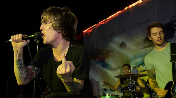 we are the ocean